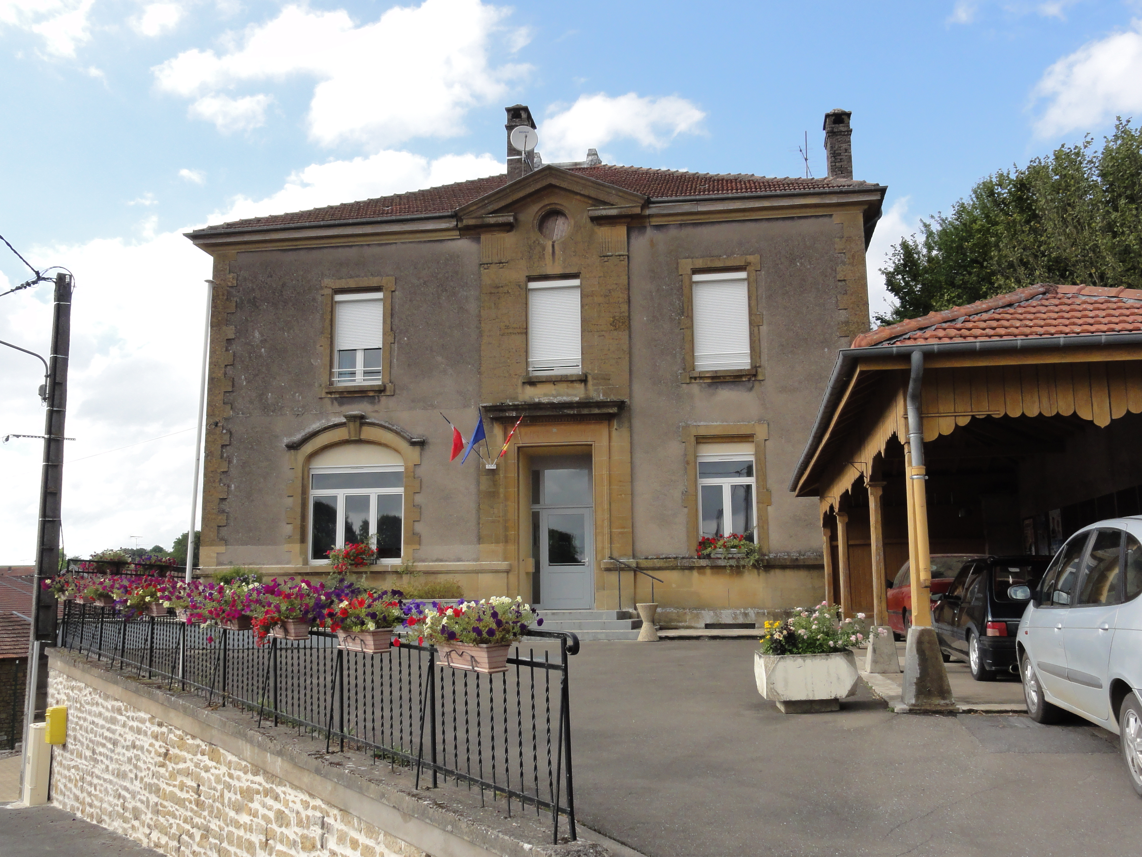 Saint-Supplet (Meurthe-et-M.) mairie